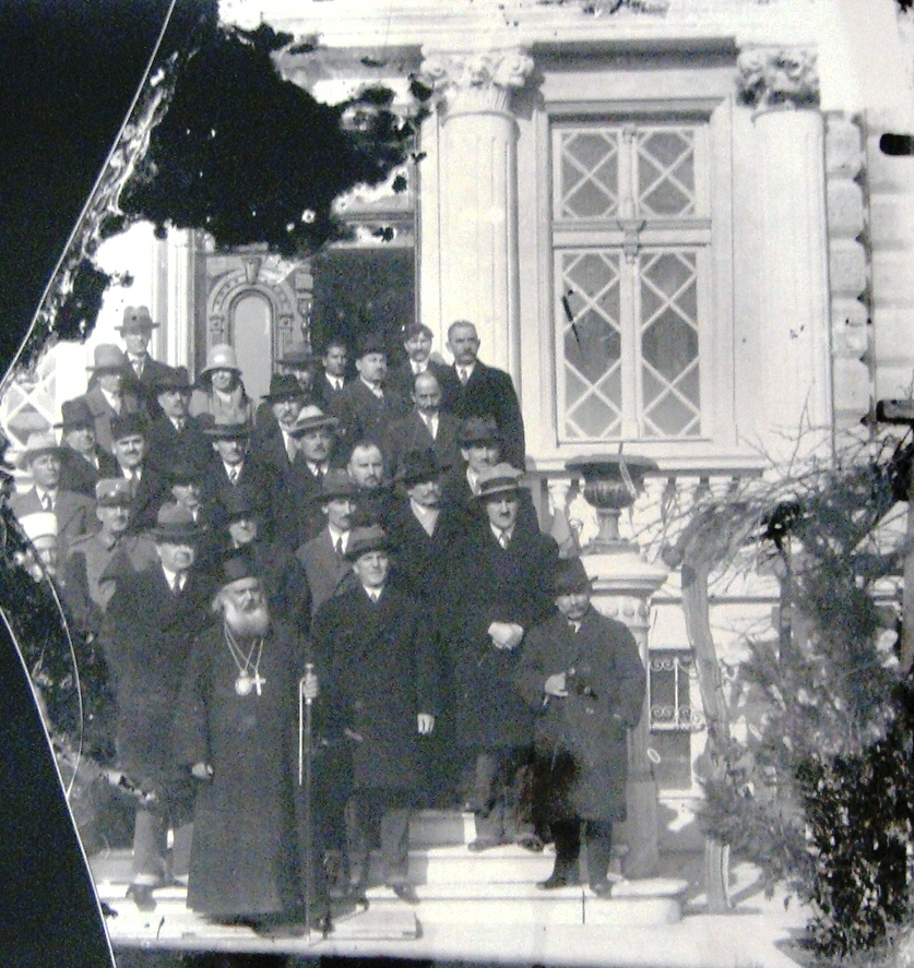 Bishop Josiph. Bitola, 1918-1941 This media file is produced by Wikipedian in Residence in Category:Wikipedian in Residence at DARM in 2016.